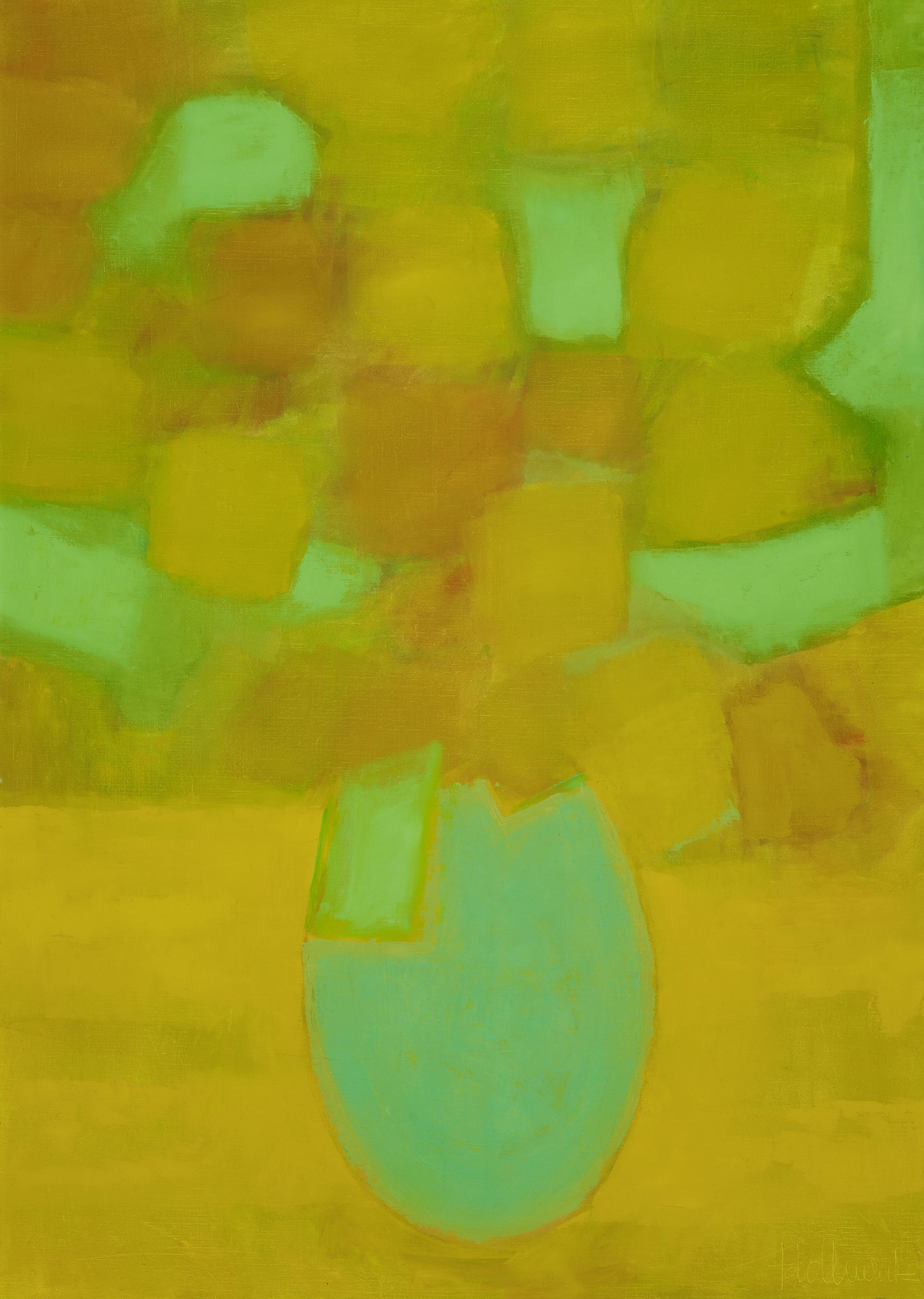 Flowers in vase, 2007